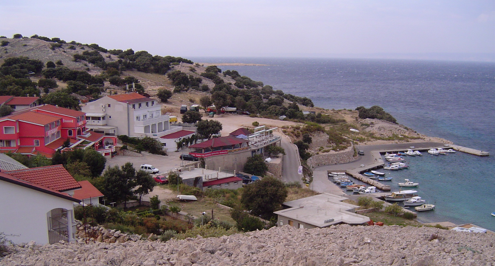 Panorama of the harbor in Stara Baška, Croatia.